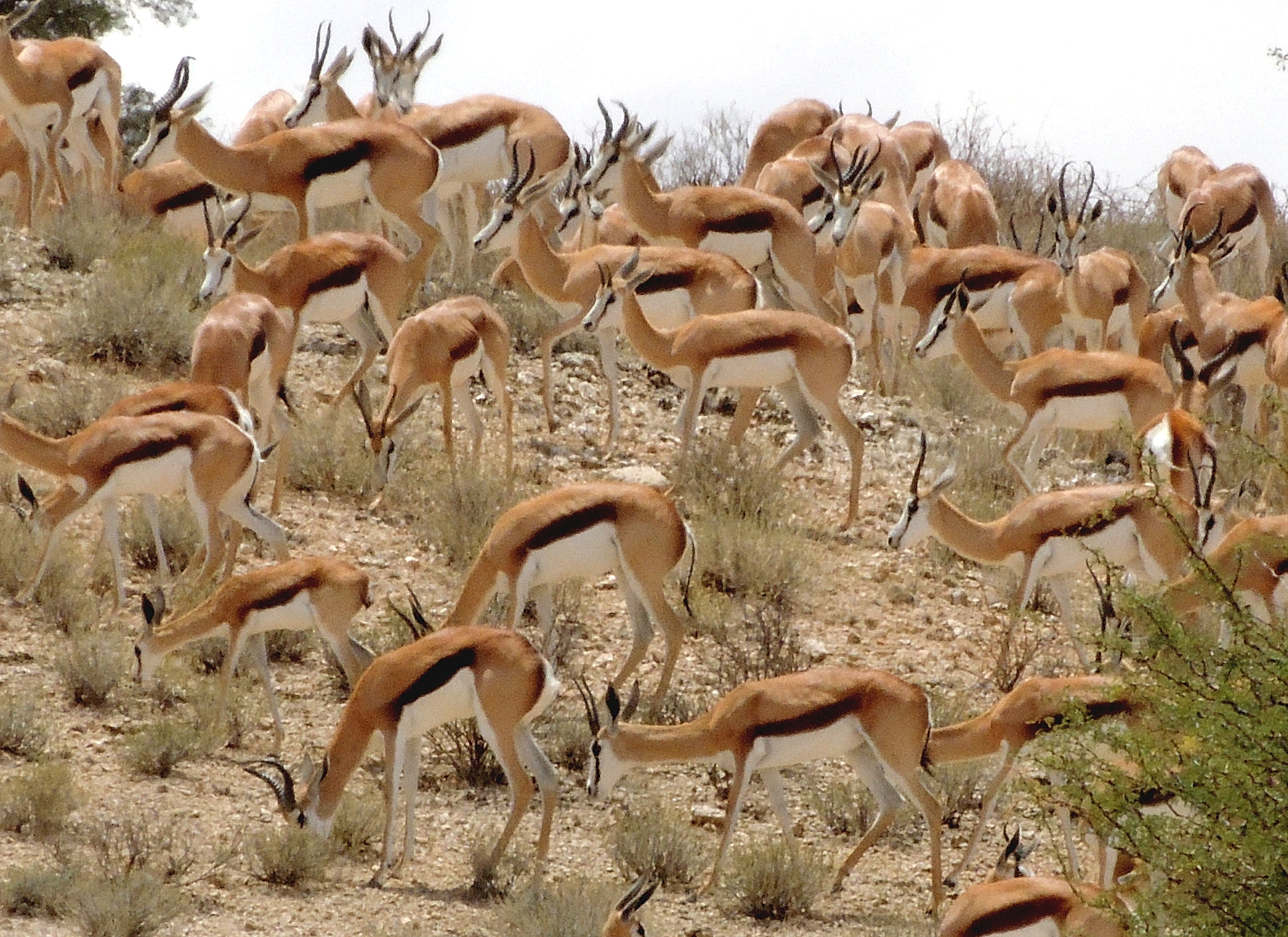 Part of a herd of Springbok in the Kgalagadi Transfrontier Park, South Africa.